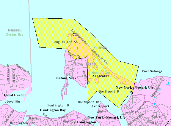 U.S. Census 2000 reference map for Asharoken